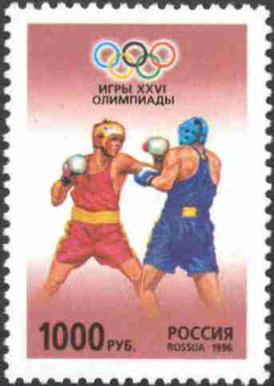 Russia stamp no. 296, commemorating the 1996 Summer Olympics.